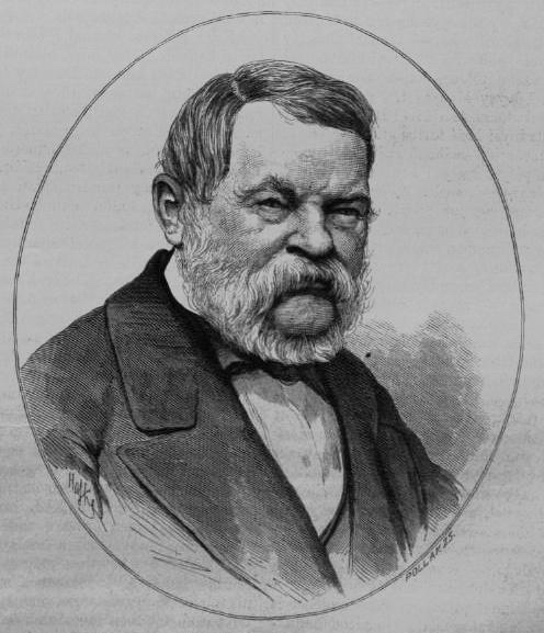 Portrait of Gusztáv Wenzel